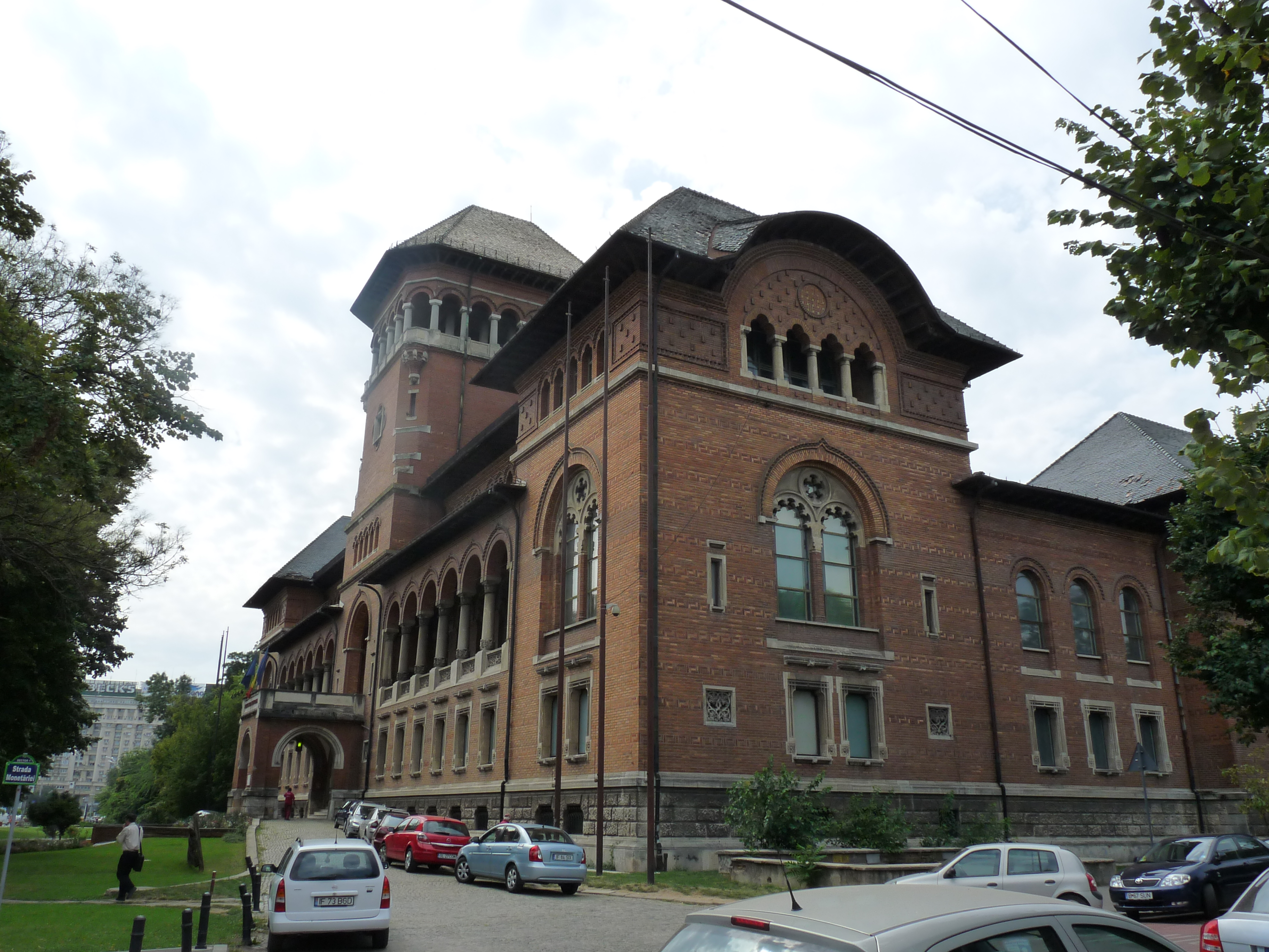 Museum of the Romanian Peasant in Bucharest, Romania